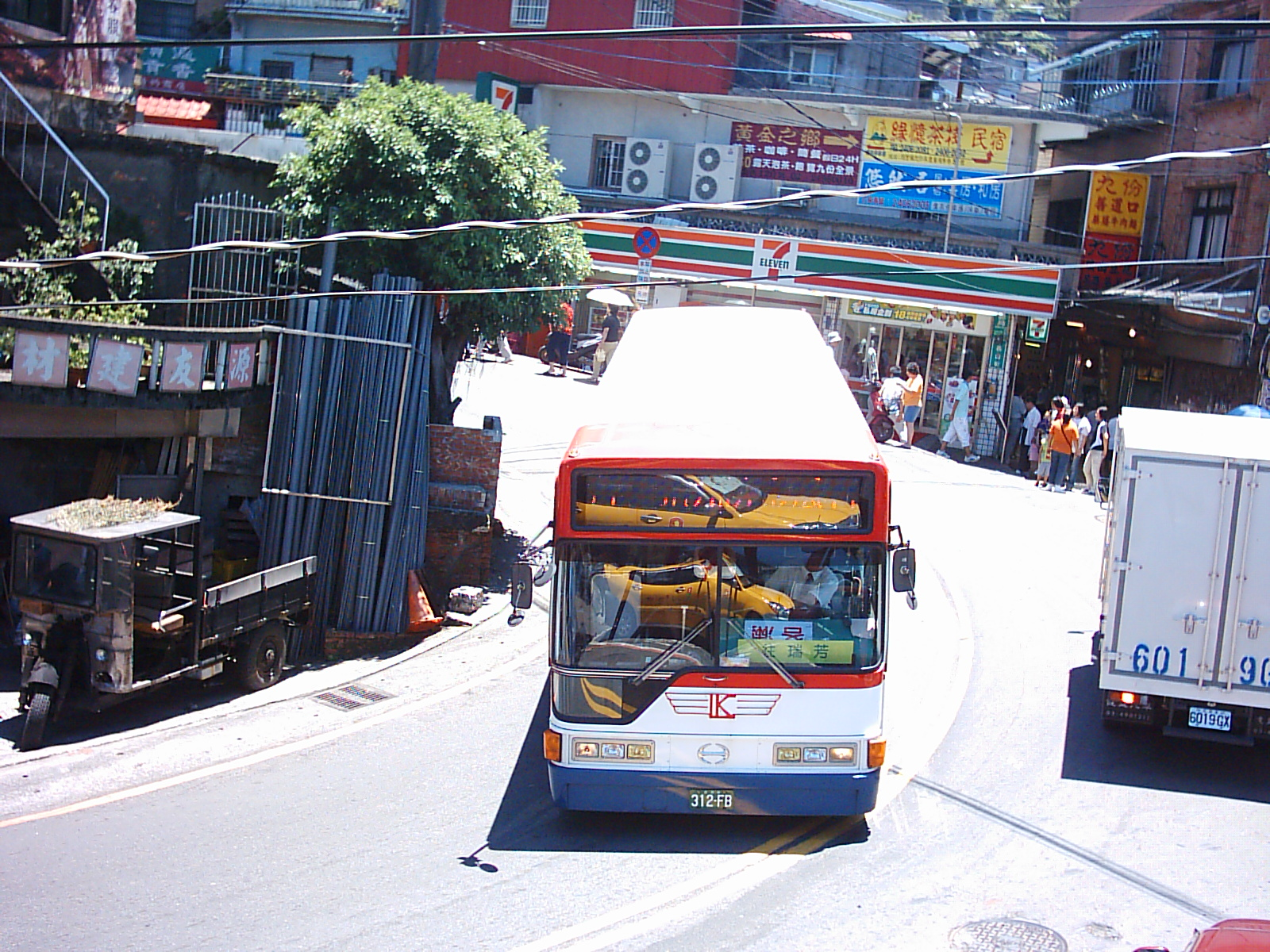 Hino ERK2JML bus 312-FB of Keelung Bus in front of 7-Eleven Jiufen Store, running on freeway bus route "Taipei - Jioufen - Chinkuashih". 中文（台灣）: 基隆客運2003年日野ERK2JML大客車312-FB在統一超商九份門市前，行駛國道客運路線「台北－九份－金瓜石」。